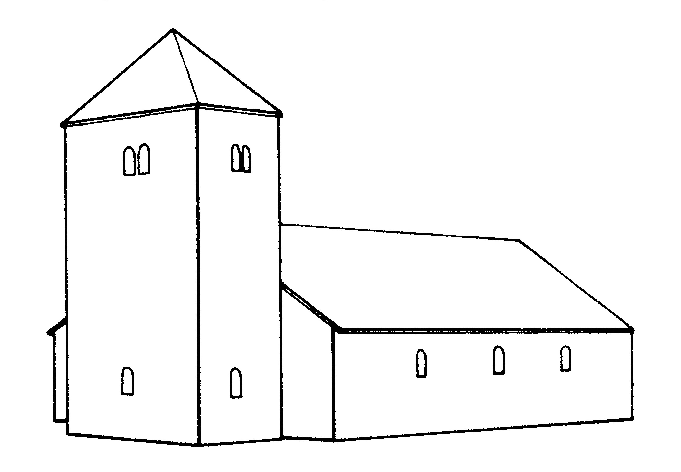 Second stage of construction of the now Reformed Church in Betschwanden, Glarus, Switzerland around the middle of the 14th century